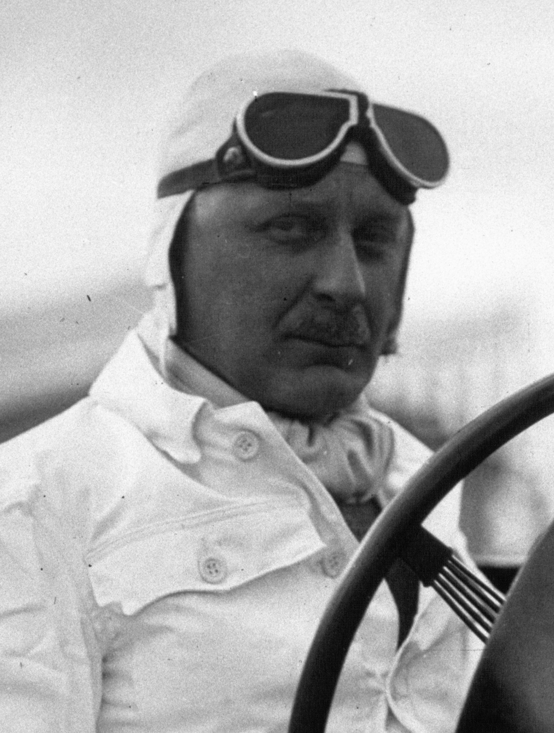 Kaye Don in a Bugatti.